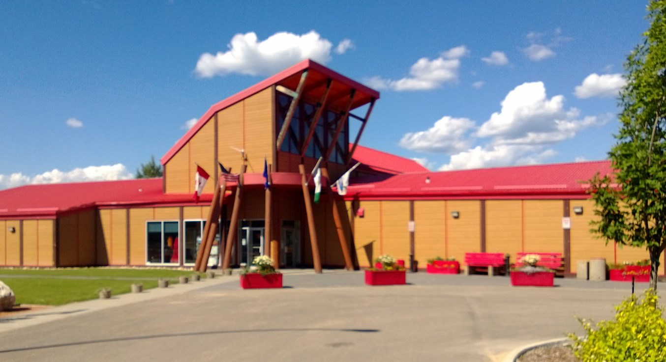 The Whitecourt Forest Interpretive Centre in Whitecourt in June 2013, which is home to a museum, a visitor information centre, and chambers for Whitecourt town council